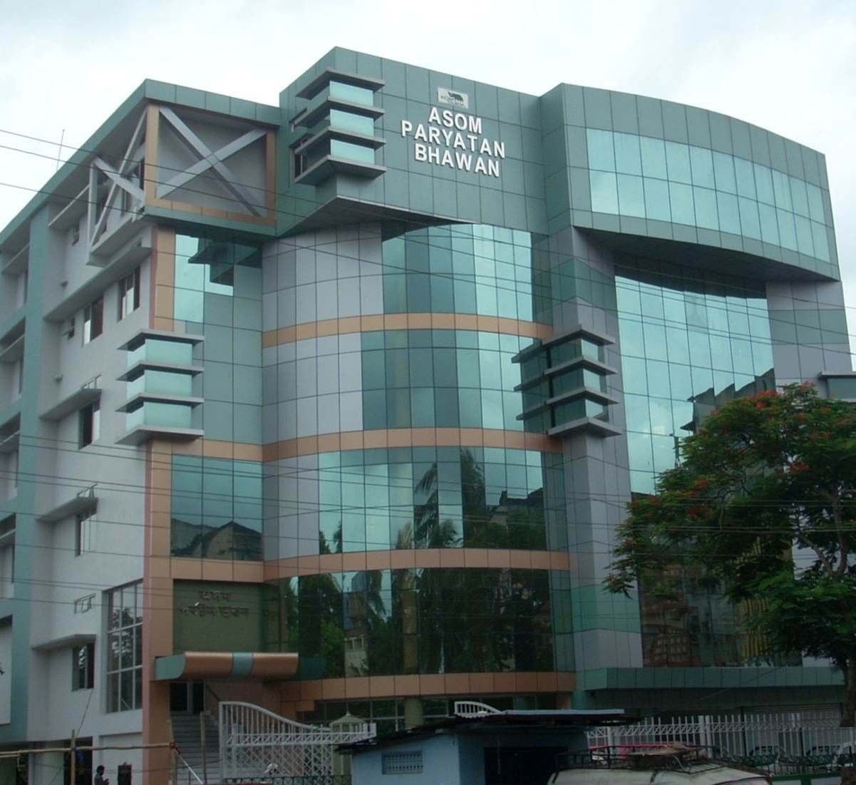 The headquarter of ATDC Ltd.